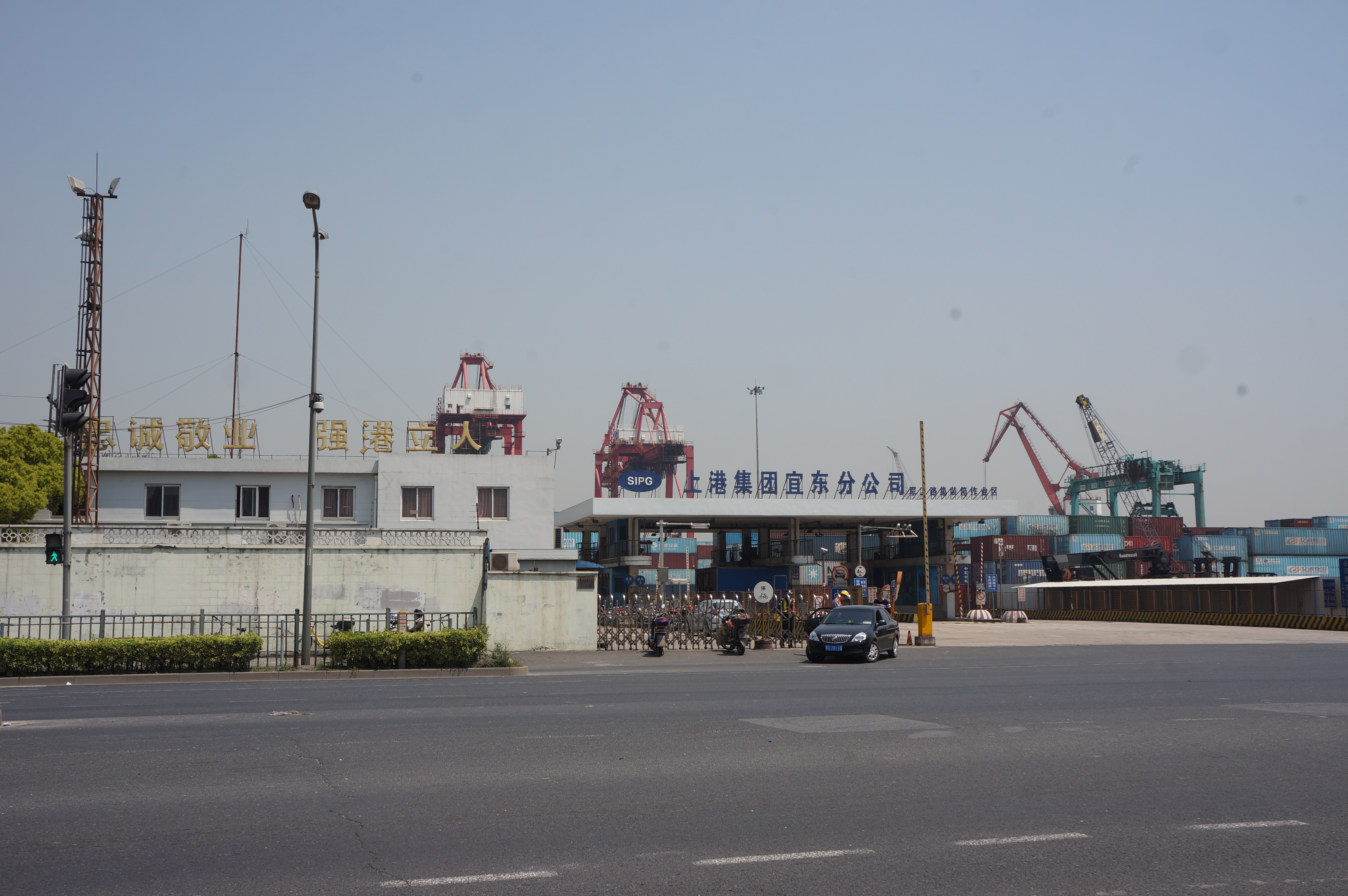 201704 SIPG-Jungong Road Port